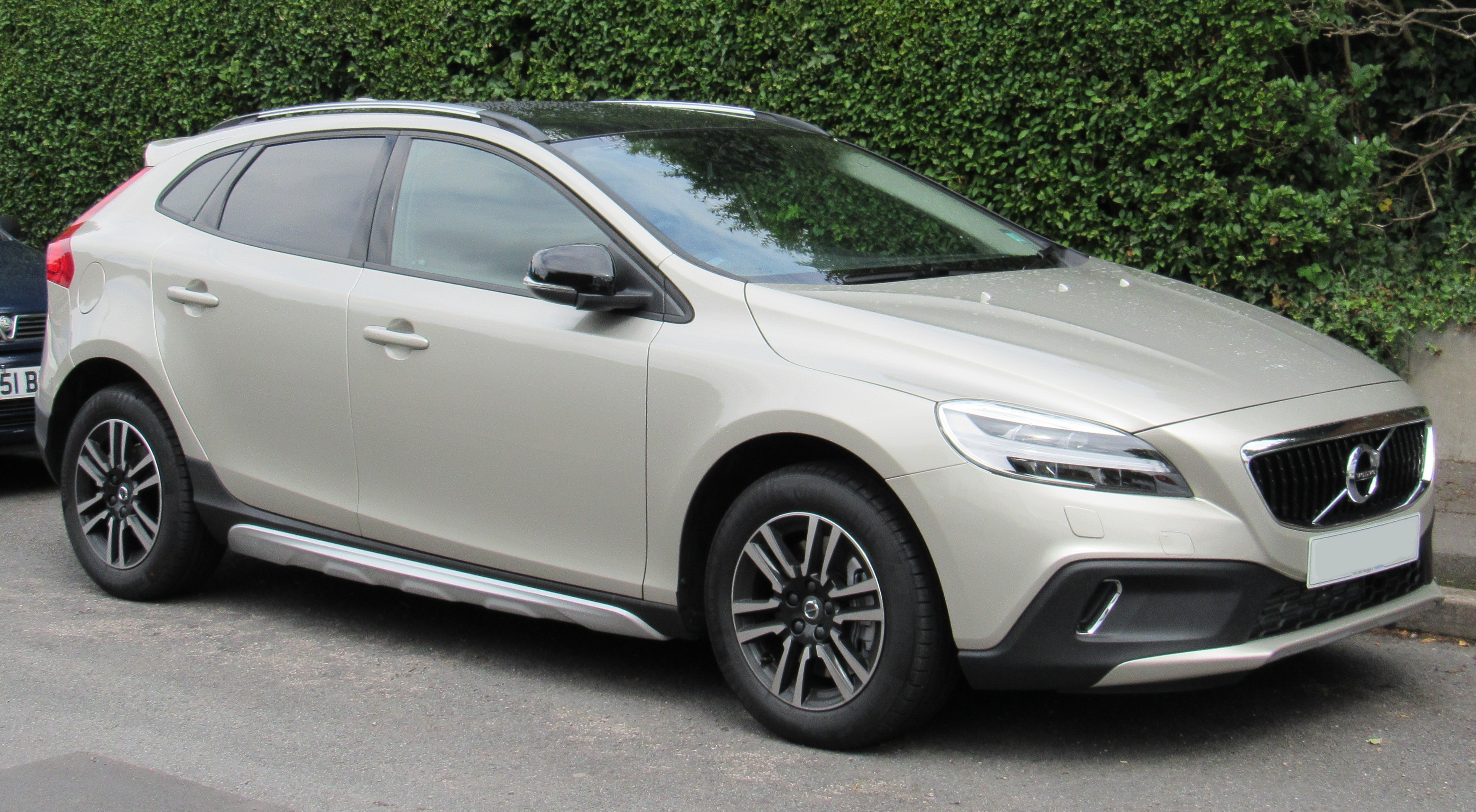 2017 Volvo V40 Cross Country 2.0 Front Taken in Warwick